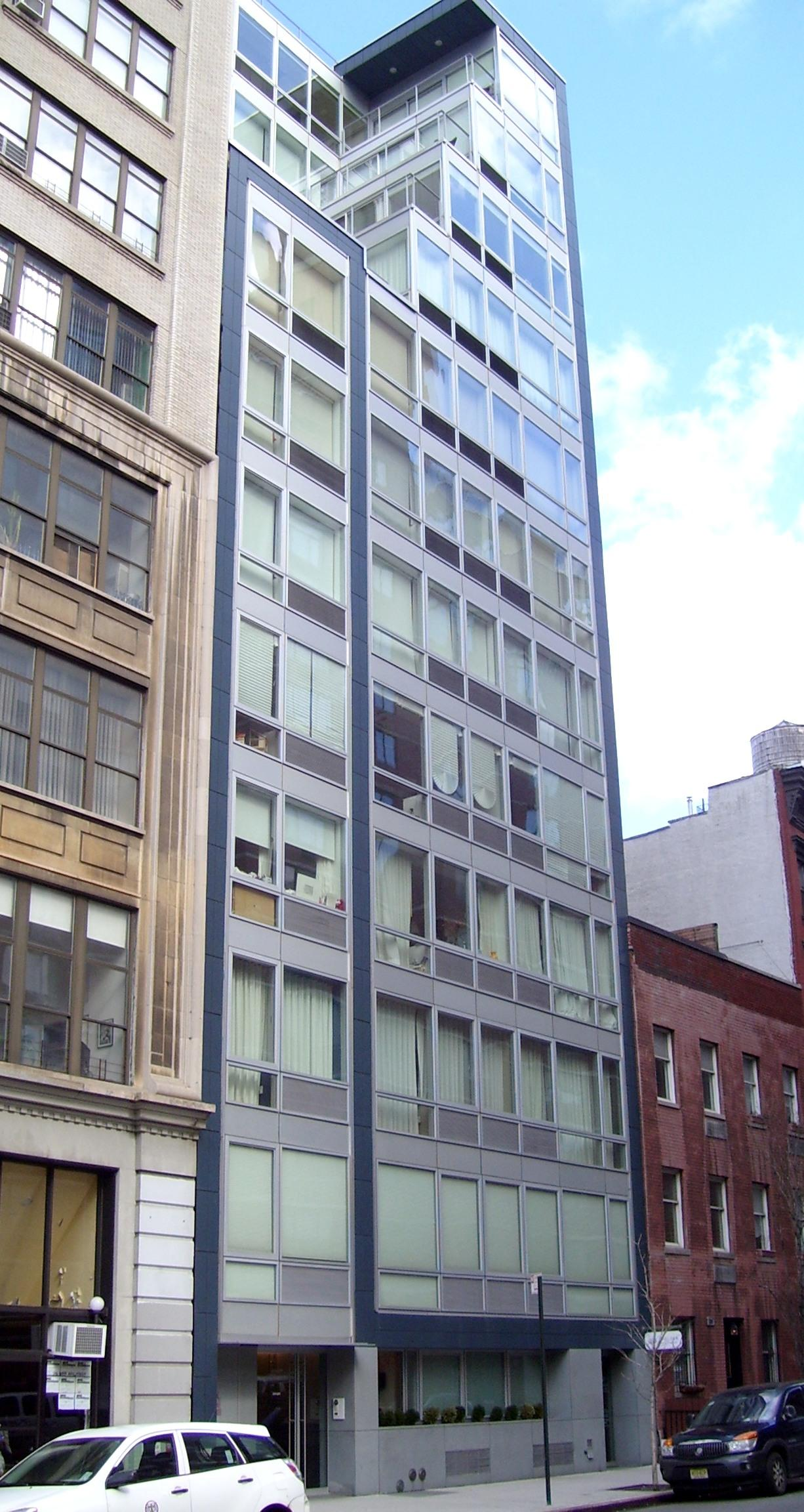 241 West 19th Street between Seventh and Eighth Avenues in the Chelsea neighborhood of Manhattan, New York City, is a condominium apartment building which was built in 2006. (Source: NYC GIS map)